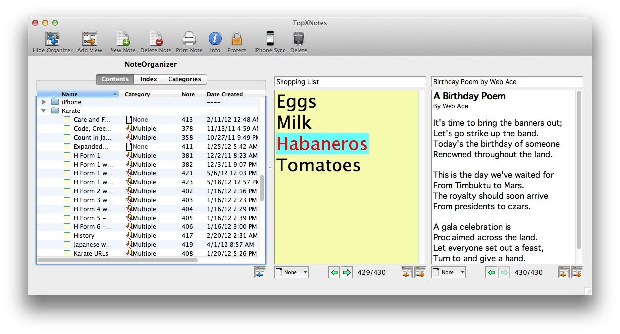 This is a screenshot from TopXNotes showing NoteOrganizer and two notes which I created. I also created all the notes in the NoteOrganizer window.